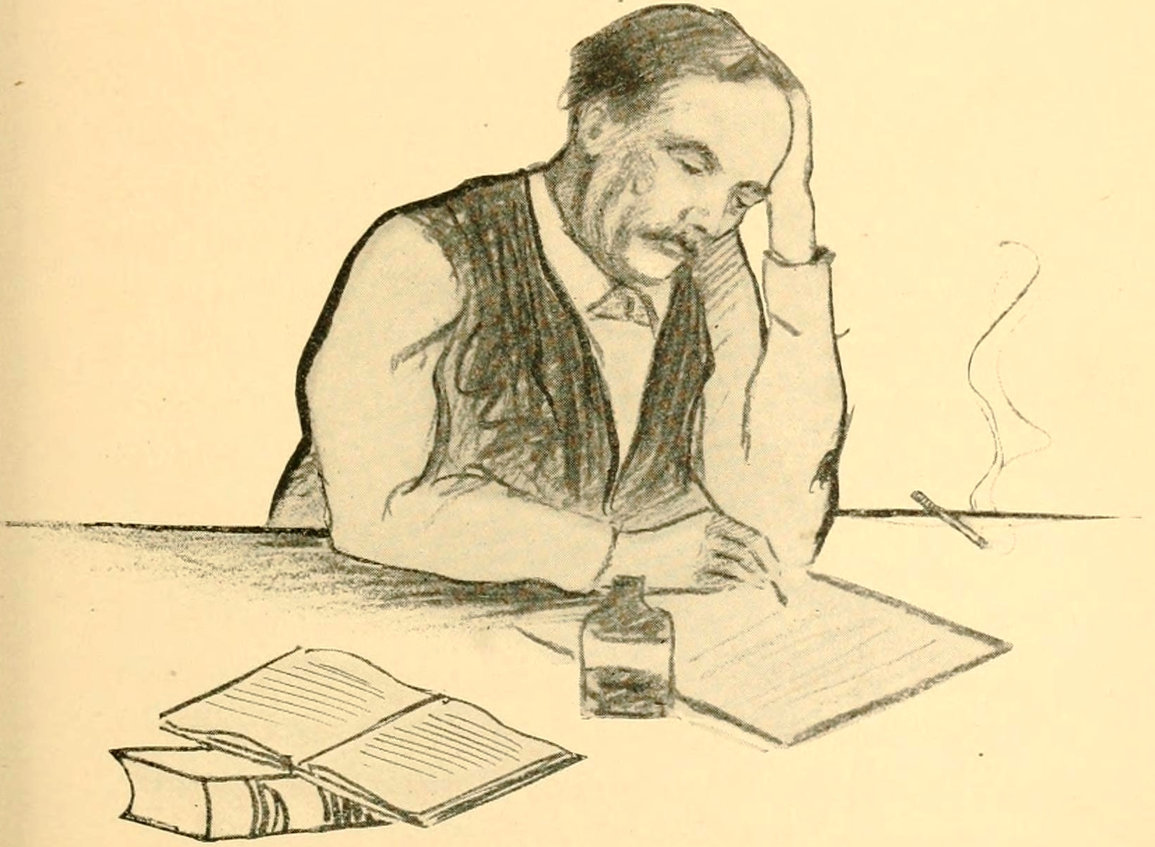 From :The spirit of the Ghetto; studies of the Jewish quarter in New York